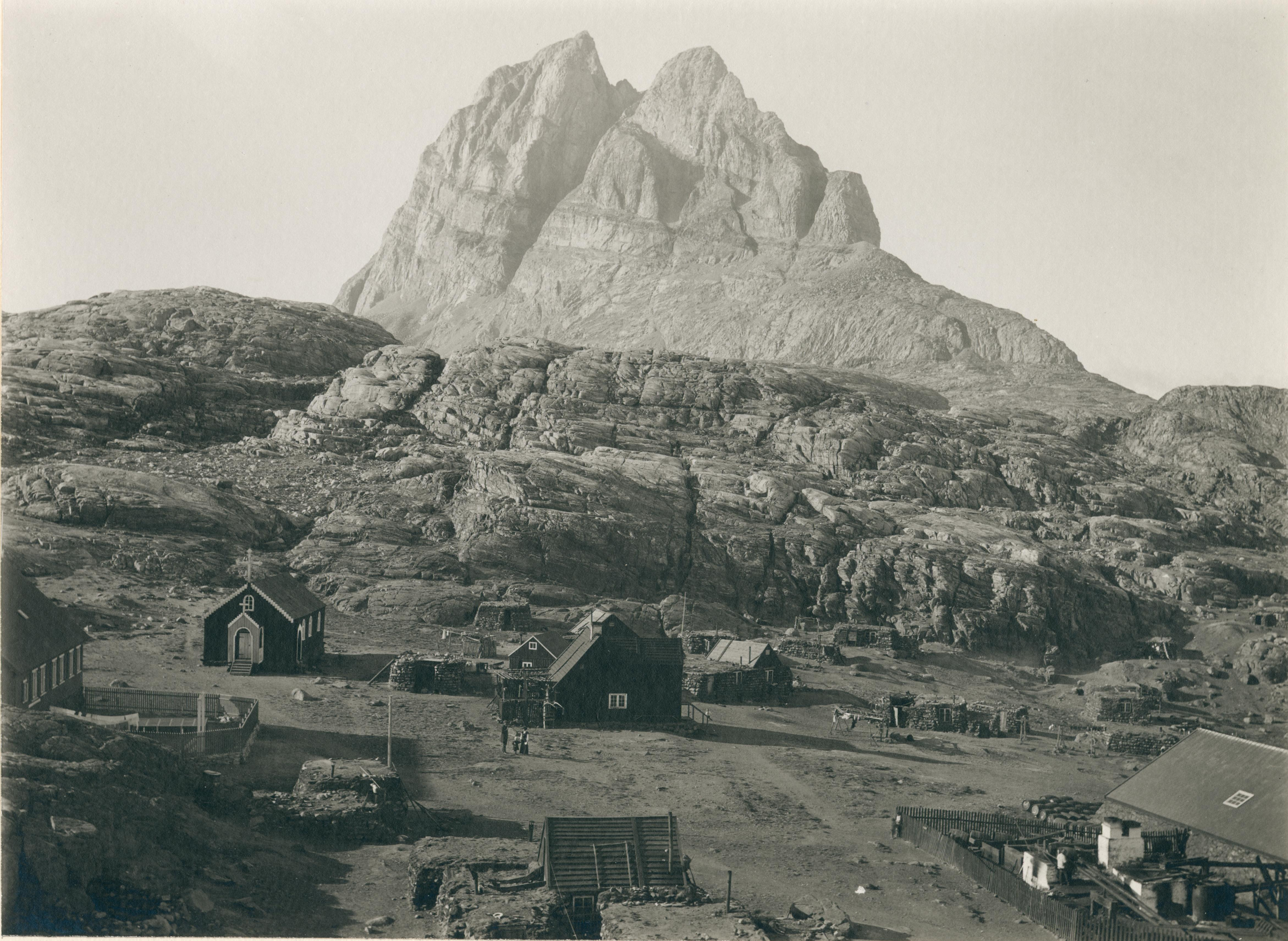 Greenland. The city Uummannaq seen from the south